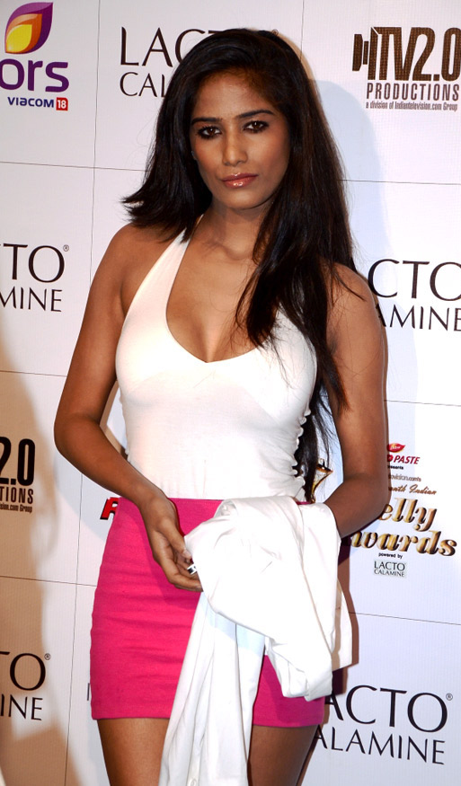 colors indian telly awards